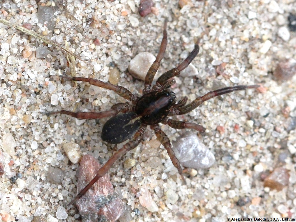 Trochosa terricola